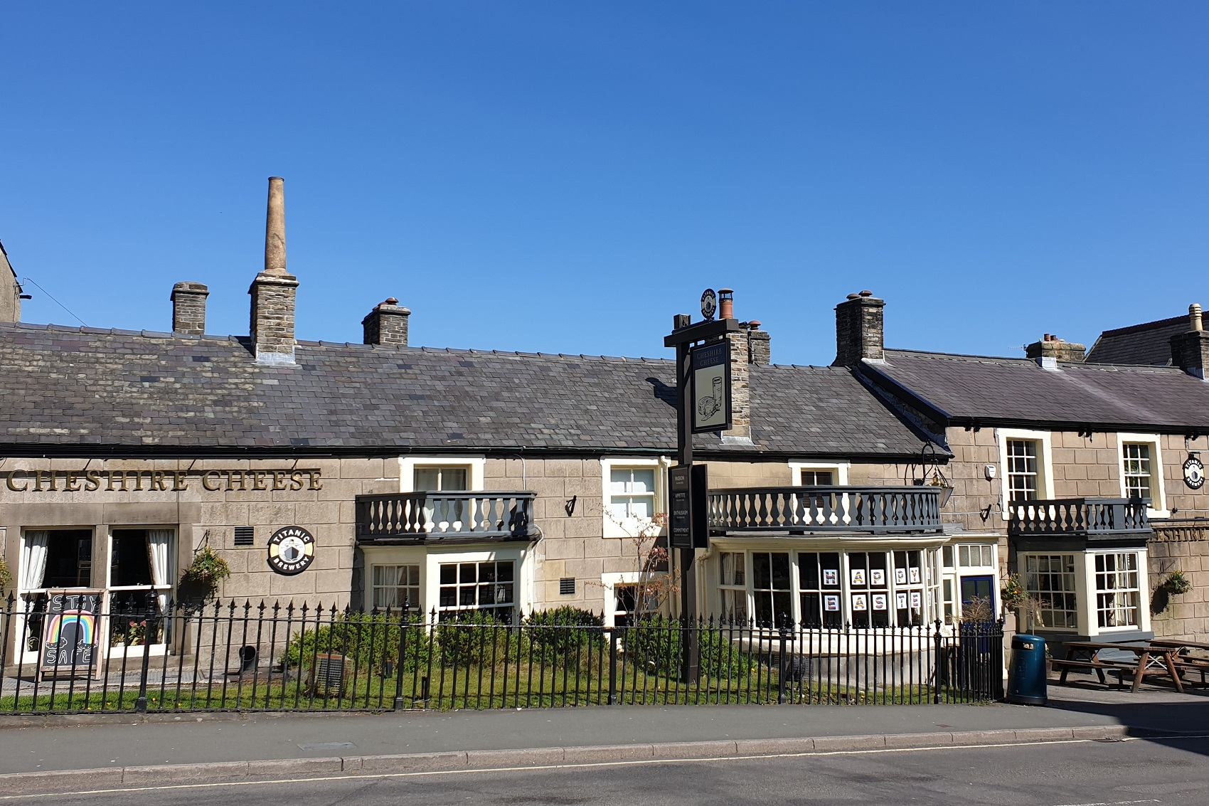 Cheshire Cheese at Buxton